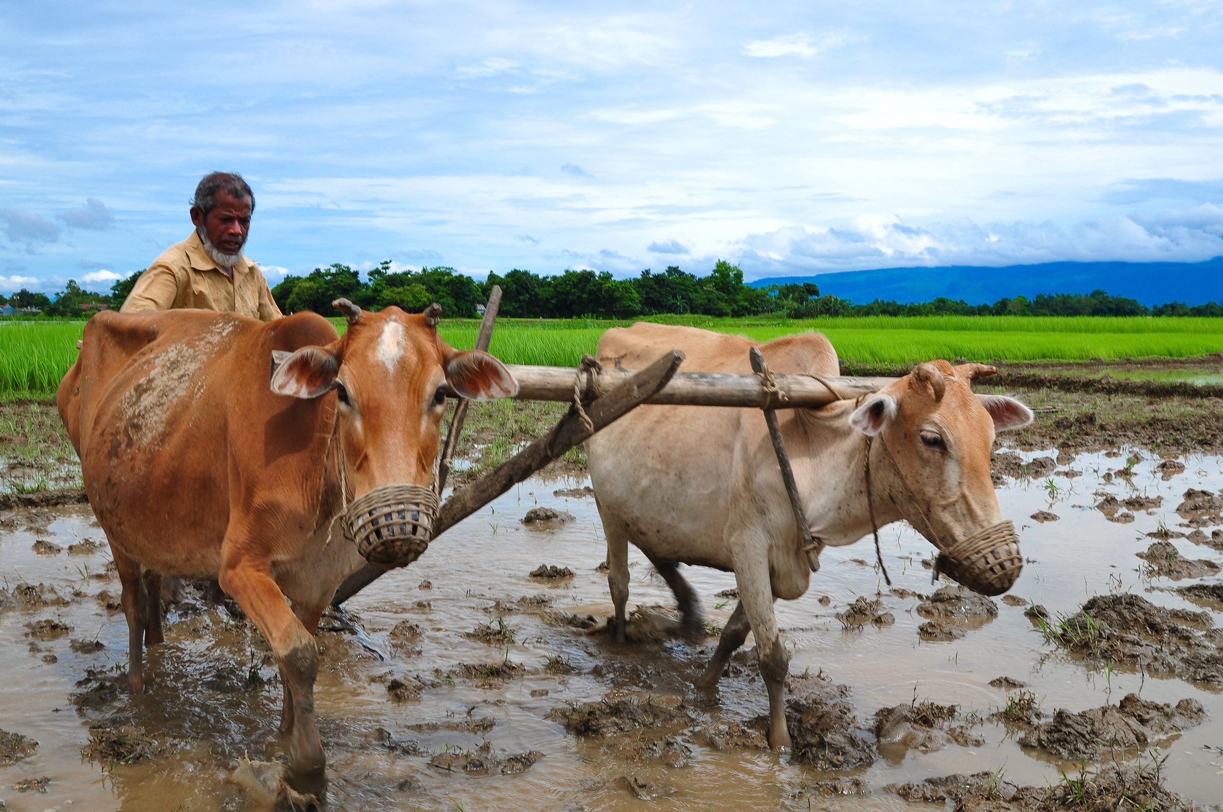 A Bangladeshi farmer is cultivating his land with his cattle.